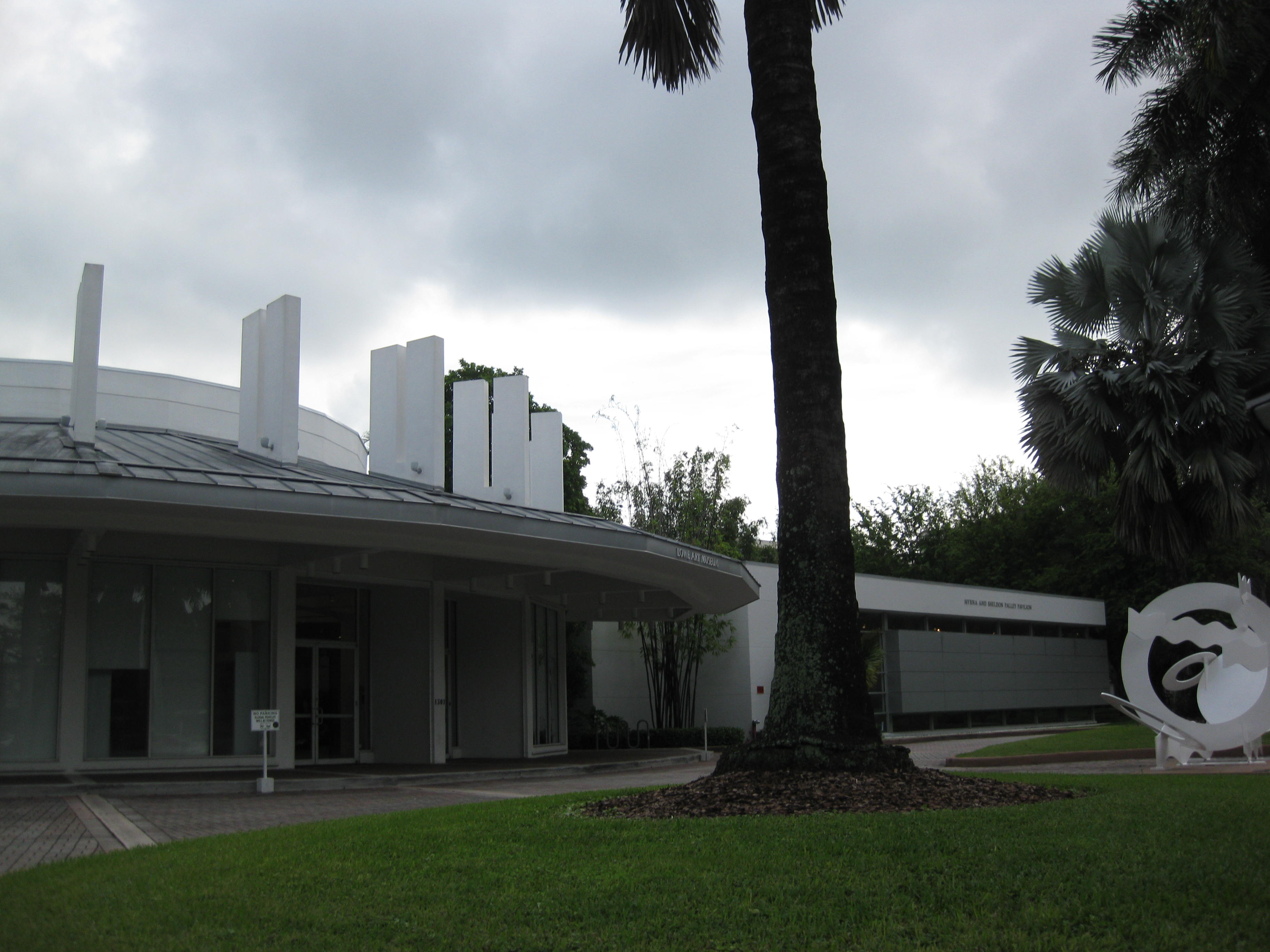 Personal photo of exterior of the Lowe Art Museum at UM